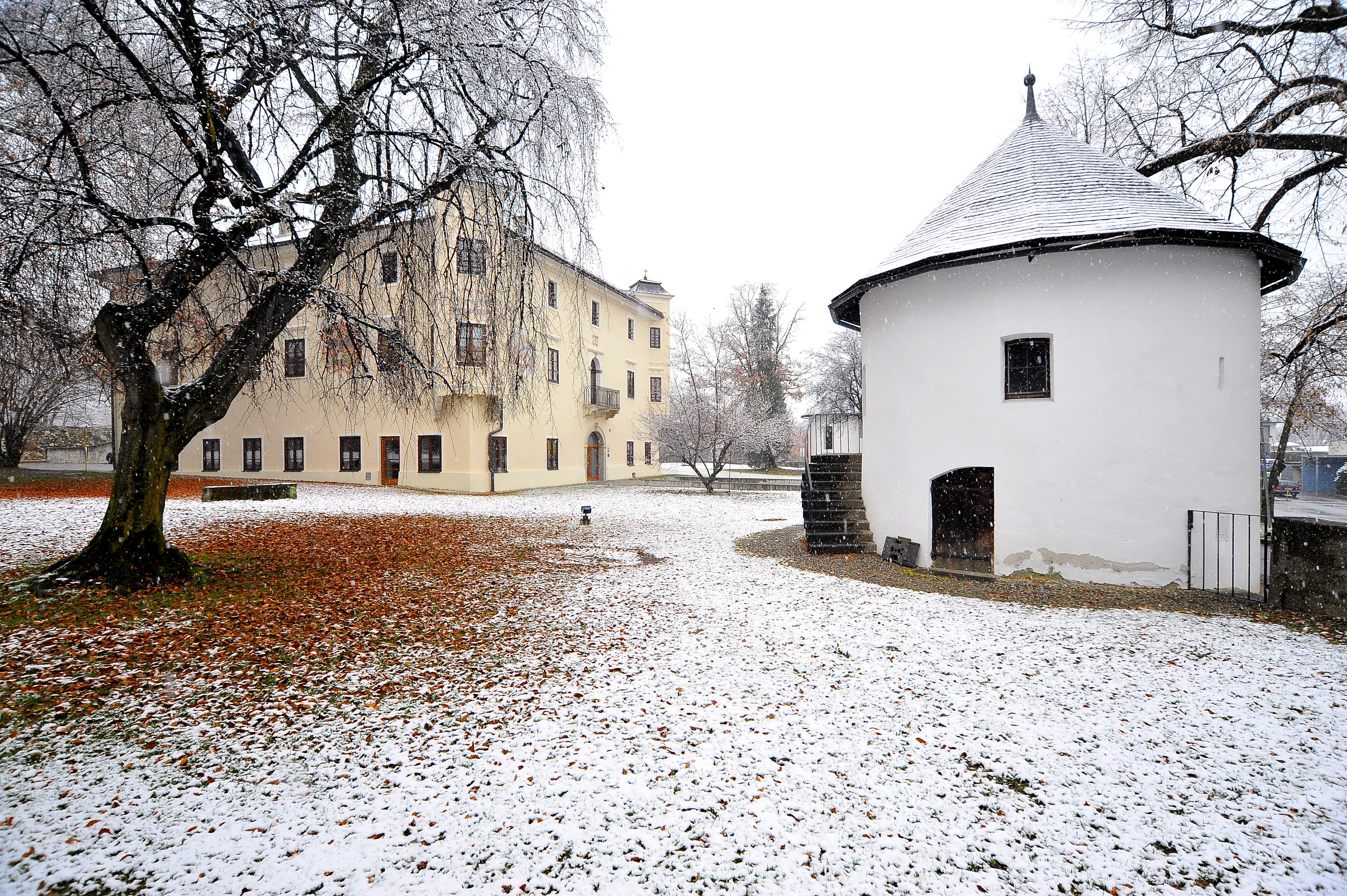 South-eastern peel (defense tower) and in the background the castle Moertenegg on the Schlossgasse #4/Saint Martin Street #11, village Saint Martin (Fellach) in Villach, Carinthia, Austria